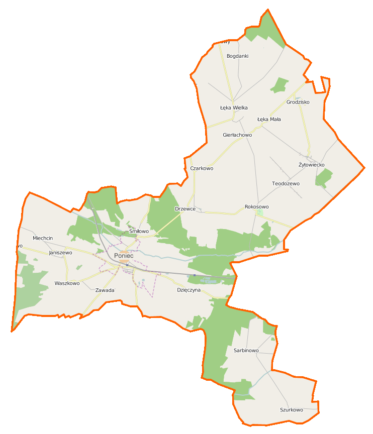 Map of Gmina Poniec, Poland This map of Poniec (gmina) was created from OpenStreetMap project data, collected by the community. This map may be incomplete, and may contain errors. Don't rely solely on it for navigation. Border coordinates51.873516.7215←↕→16.976351.6904